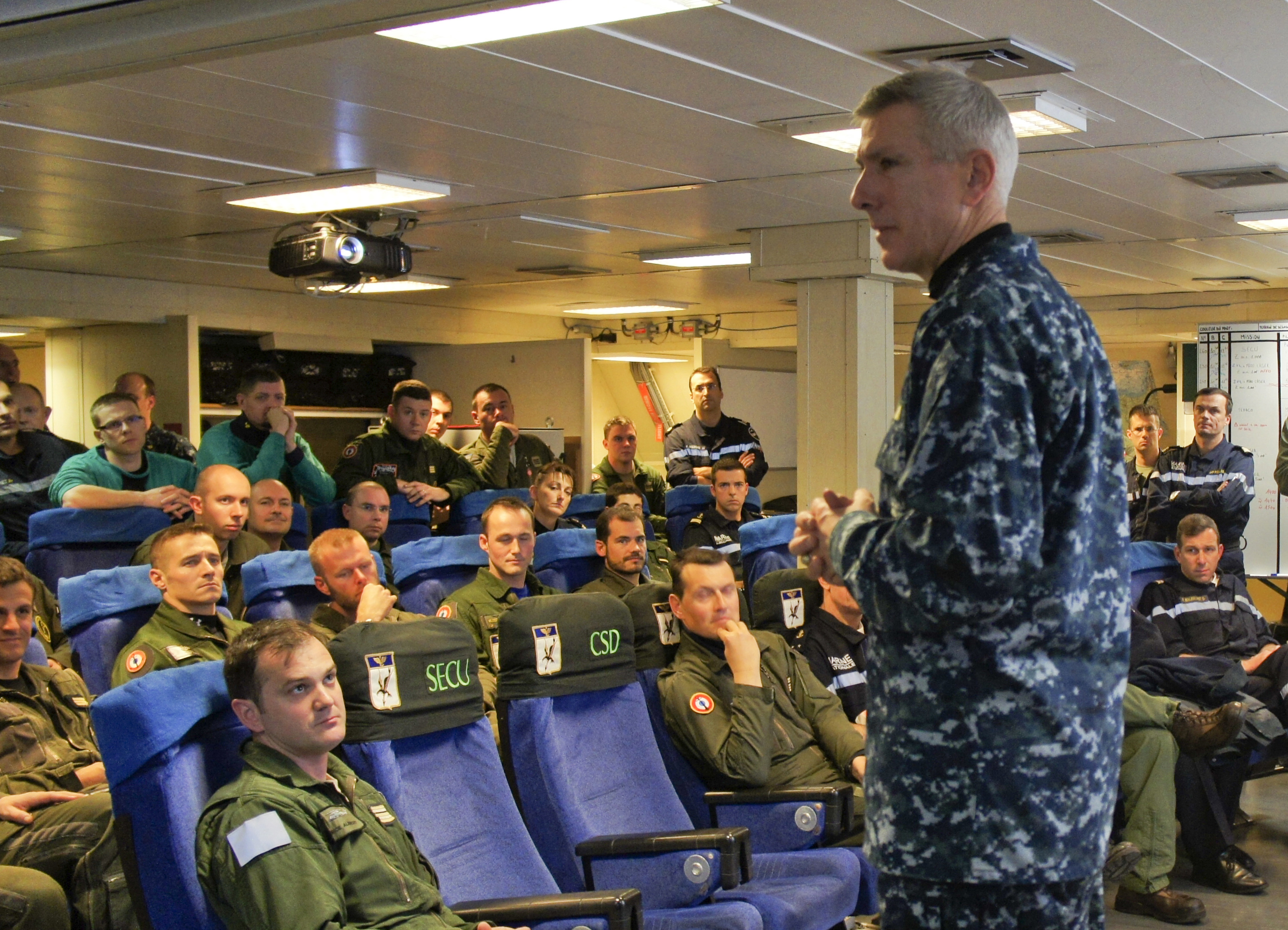 MEDITERRANEAN SEA (March. 21, 2011) Adm. Samuel J. Locklear, III, commander, Joint Task Force Odyssey Dawn, speaks with an aircrew team from the French Navy aircraft carrier Charles de Gaulle (R91). Charles de Gaulle is operating in the Mediterranean Sea supporting the coalition led operations in response to the crisis in Libya. Joint Task Force Odyssey Dawn is the U.S. Africa Command task force established to provide operational and tactical command and control of U.S. military forces supporting the international response to the unrest in Libya and enforcement of United Nations Security Council Resolution (UNSCR) 1973. UNSCR 1973 authorizes all necessary measures to protect civilians in Libya under threat of attack by the Qadhafi regime forces. (U.S. Navy photo/Released)